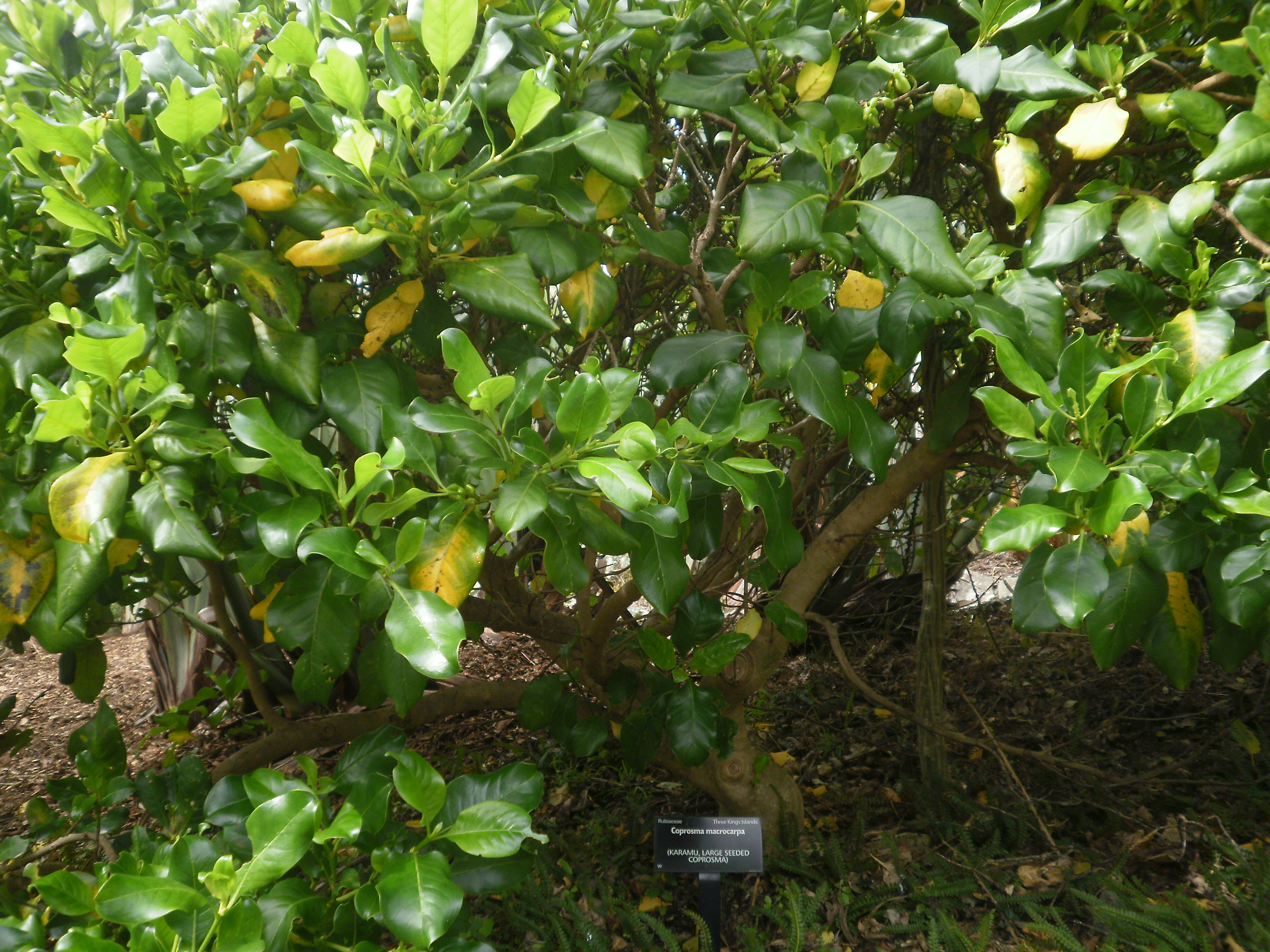 Coprosma macrocarpa, Large seeded coprosma, at Otari-Wilton's bush, Wellington, New Zealand.